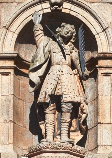 Church of San Paio de Antealtares, Santiago de Compostela, Galicia, Spain.